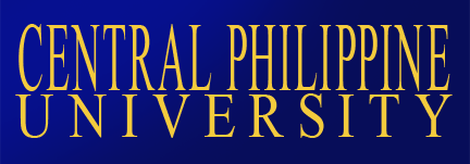 Central Philippine University Official Banner